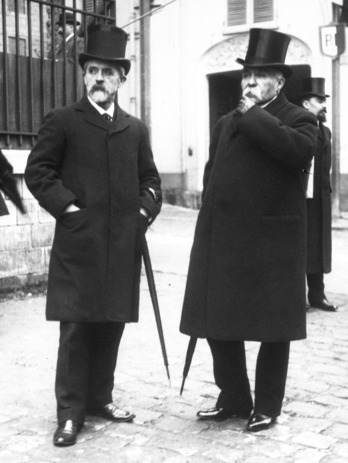 French préfet de police and inventor Louis Lépine (1846-1933) with Prime Minister Georges Clémenceau (1841-1929) at Choisy-le-Roi in 1908